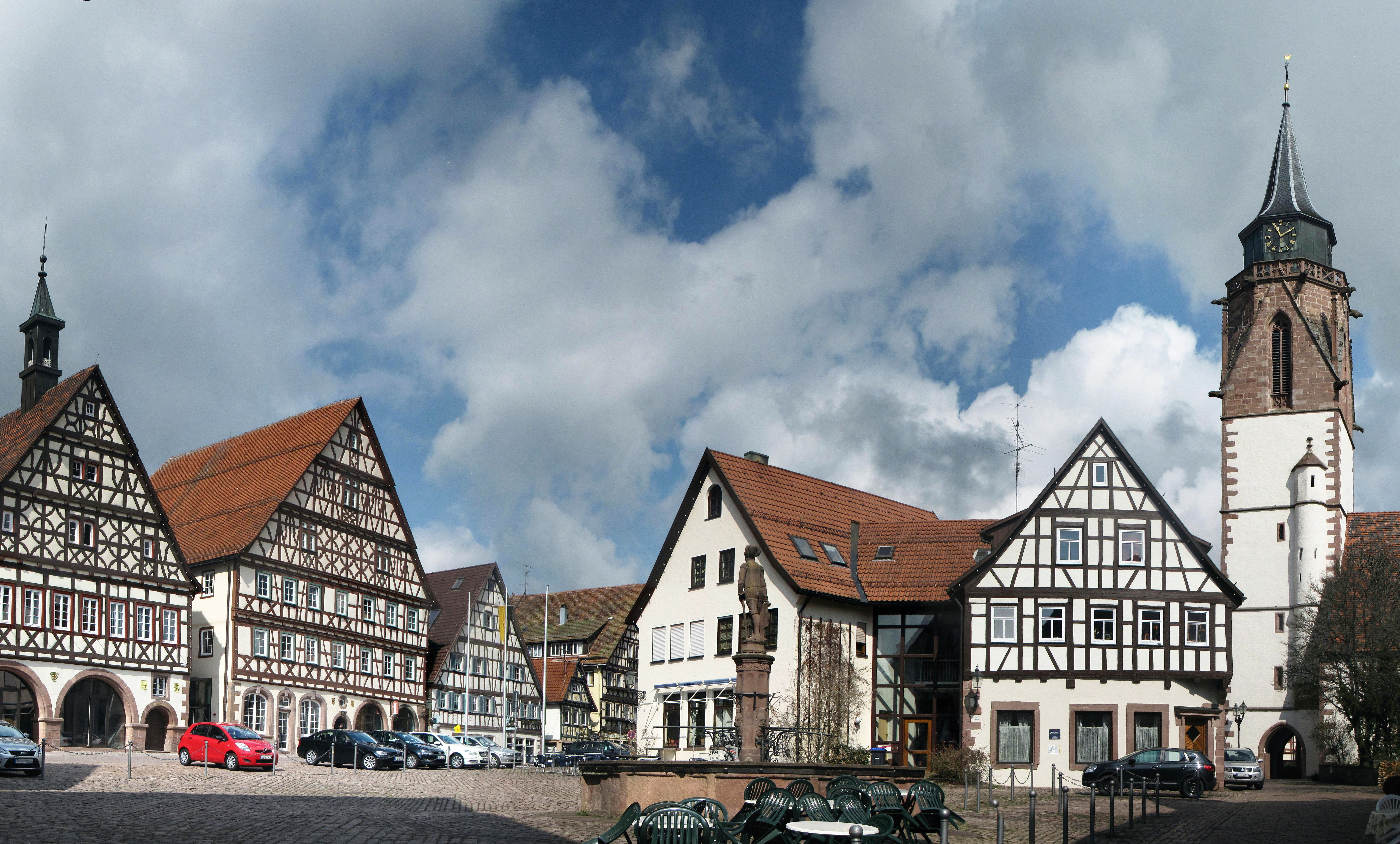 Market square and half-timbered buildings in Dornstetten , Baden-Württemberg, Germany. In foreground market place fountain; background town-hall, guest-house oxen, old schoolhouse, old vicarage and Martin church.